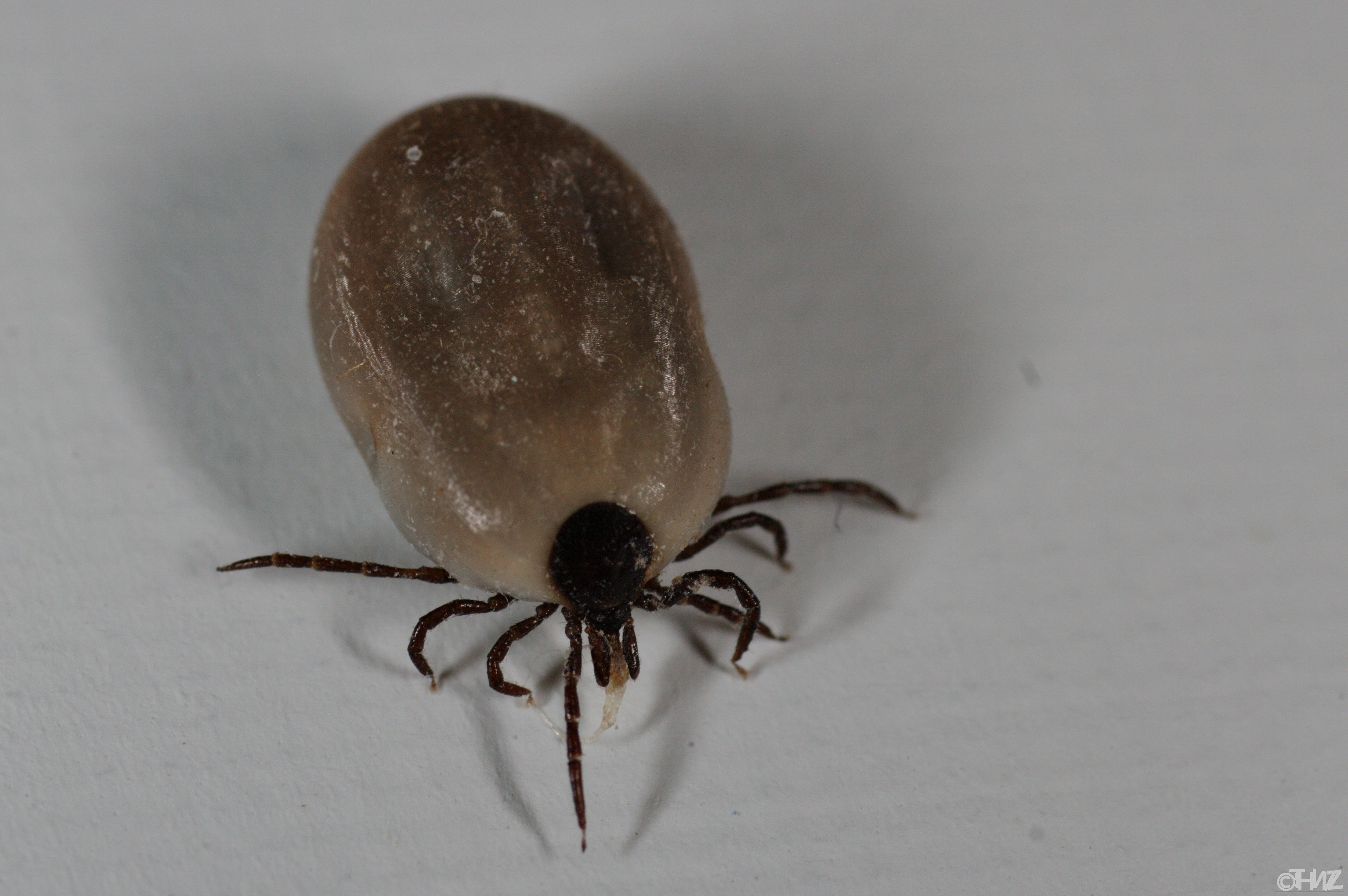 Ixodes ricinus